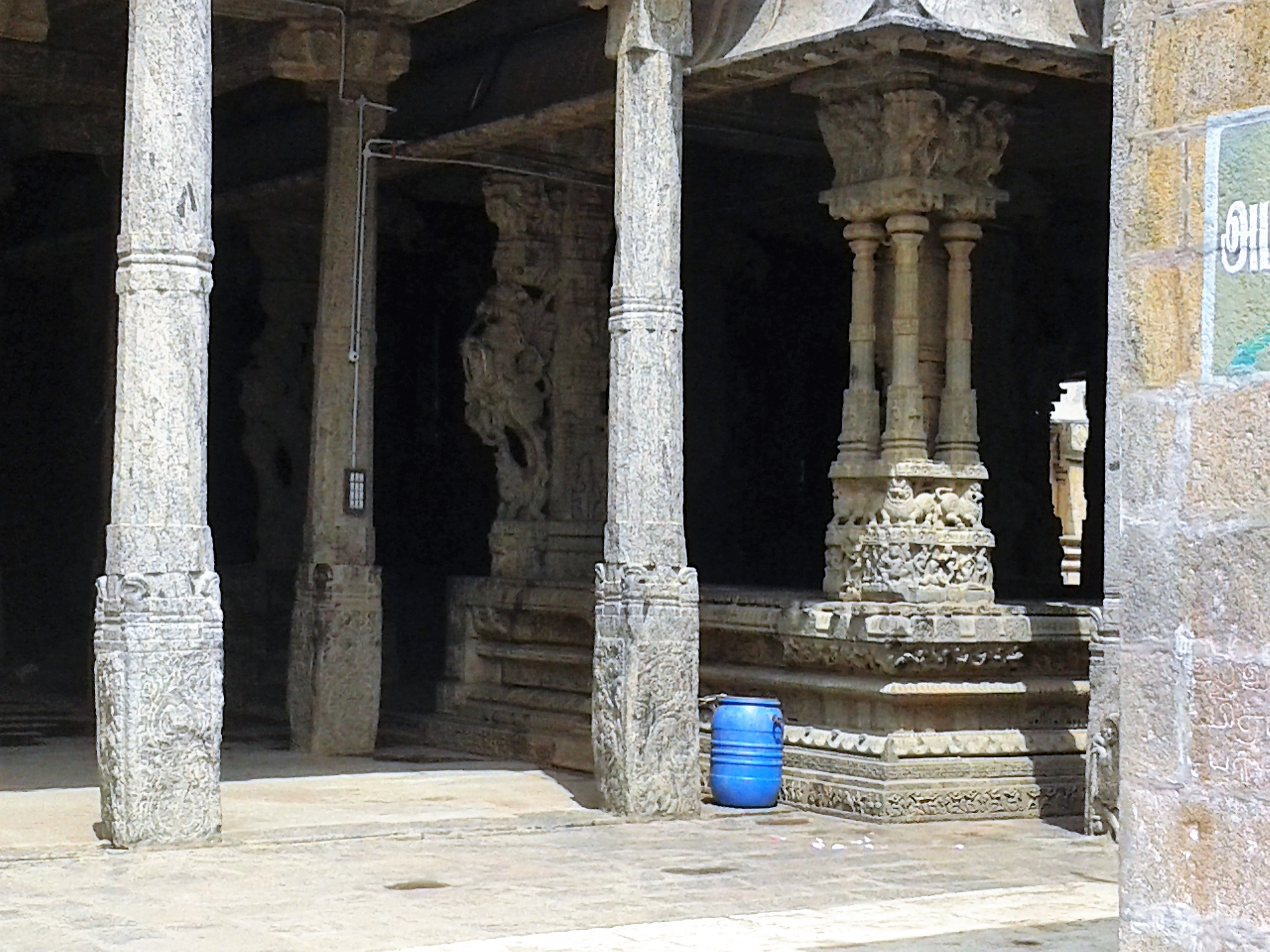 Srimushnam Bhuvarahaswamy temple